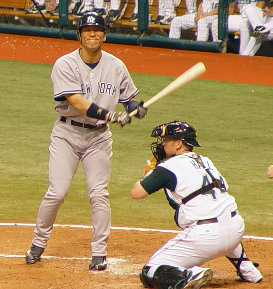 Hideki Matsui winces from swinging at a bad pitch. Photo by Googie Man 03:59, 15 September 2005 . . Googie man . . 945×1000 (523,772 bytes)